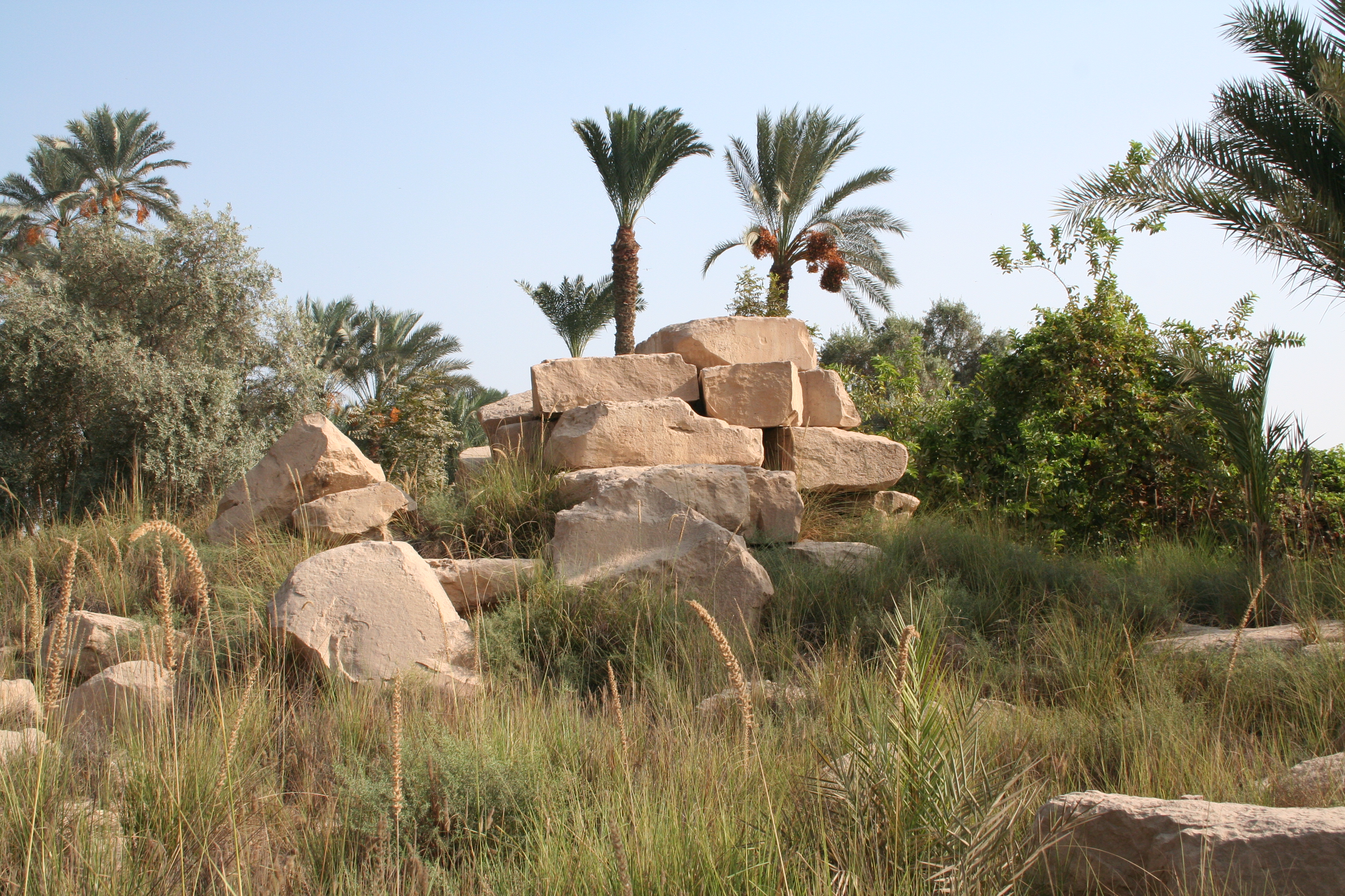 Ruins of Colossal statues of Amenemhat III at Biahmu